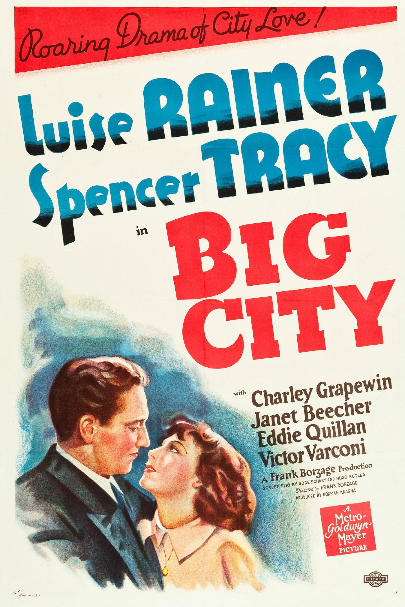 Poster for the American drama film The Big City (1937). There are no copyright marks. At bottom left is "D" (poster vrsion "D") and Litho in USA. At bottom right is the Tooker Litho Company logo-they printed the poster.